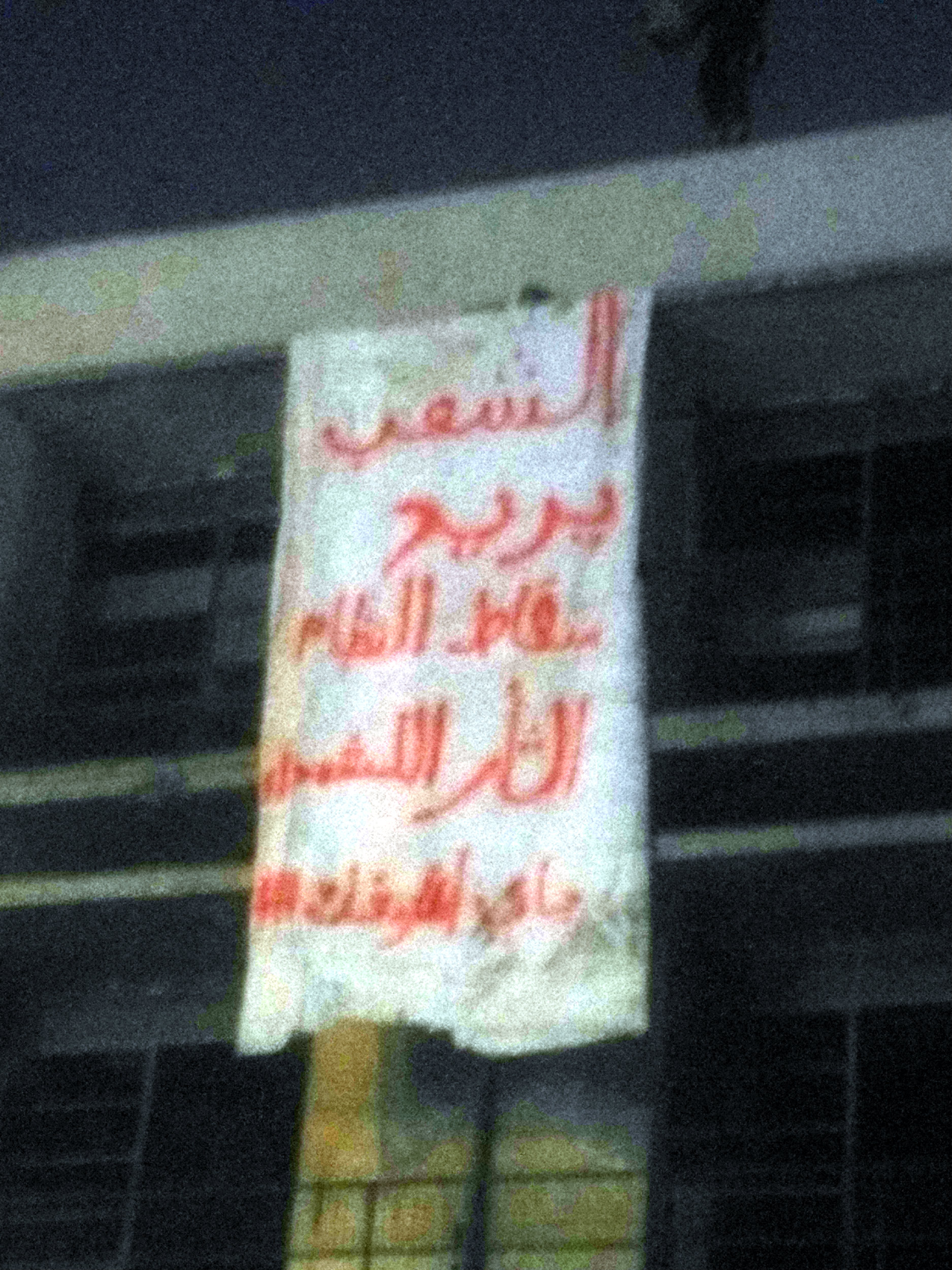 a poster demanding to step down the regime and Revenge for martyr